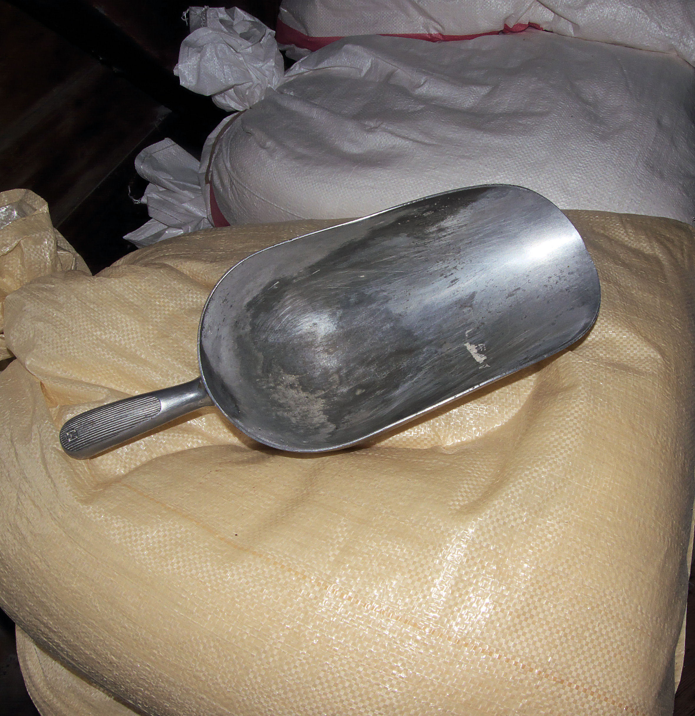 flour scoop